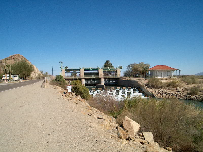 The Laguna Diversion Dam from downstream side.